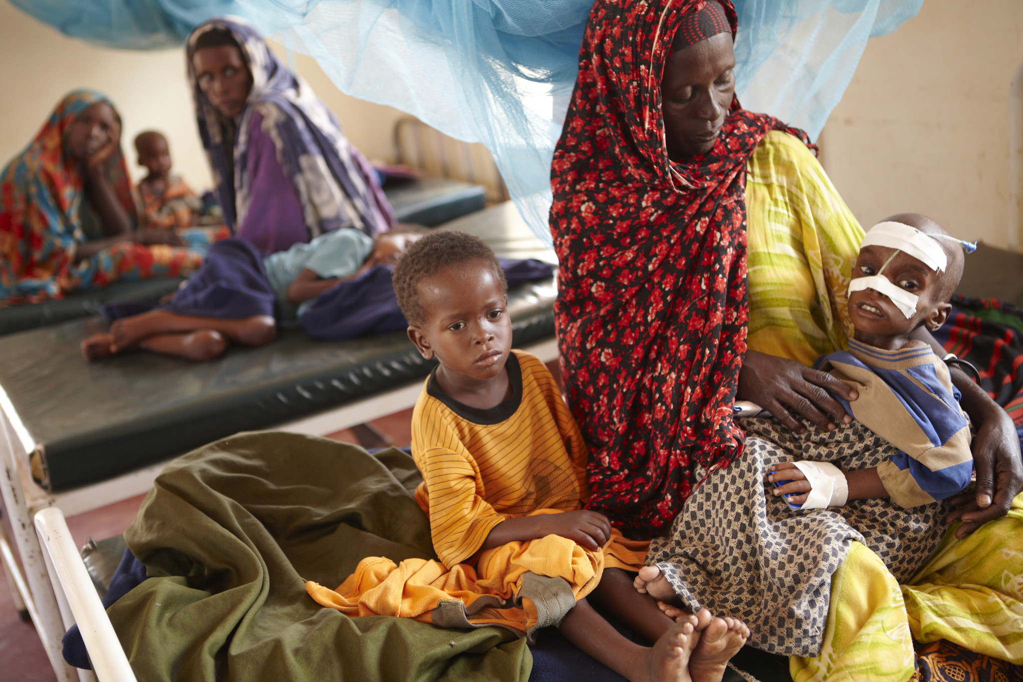 Luli Hassan Ali looks after her severely malnourished four-year-old son, Aden, and his six-year-old brother Mohammed, in a clinic in the Dagahaley camp in Dadaab. Photo: Andy Hall/Oxfam